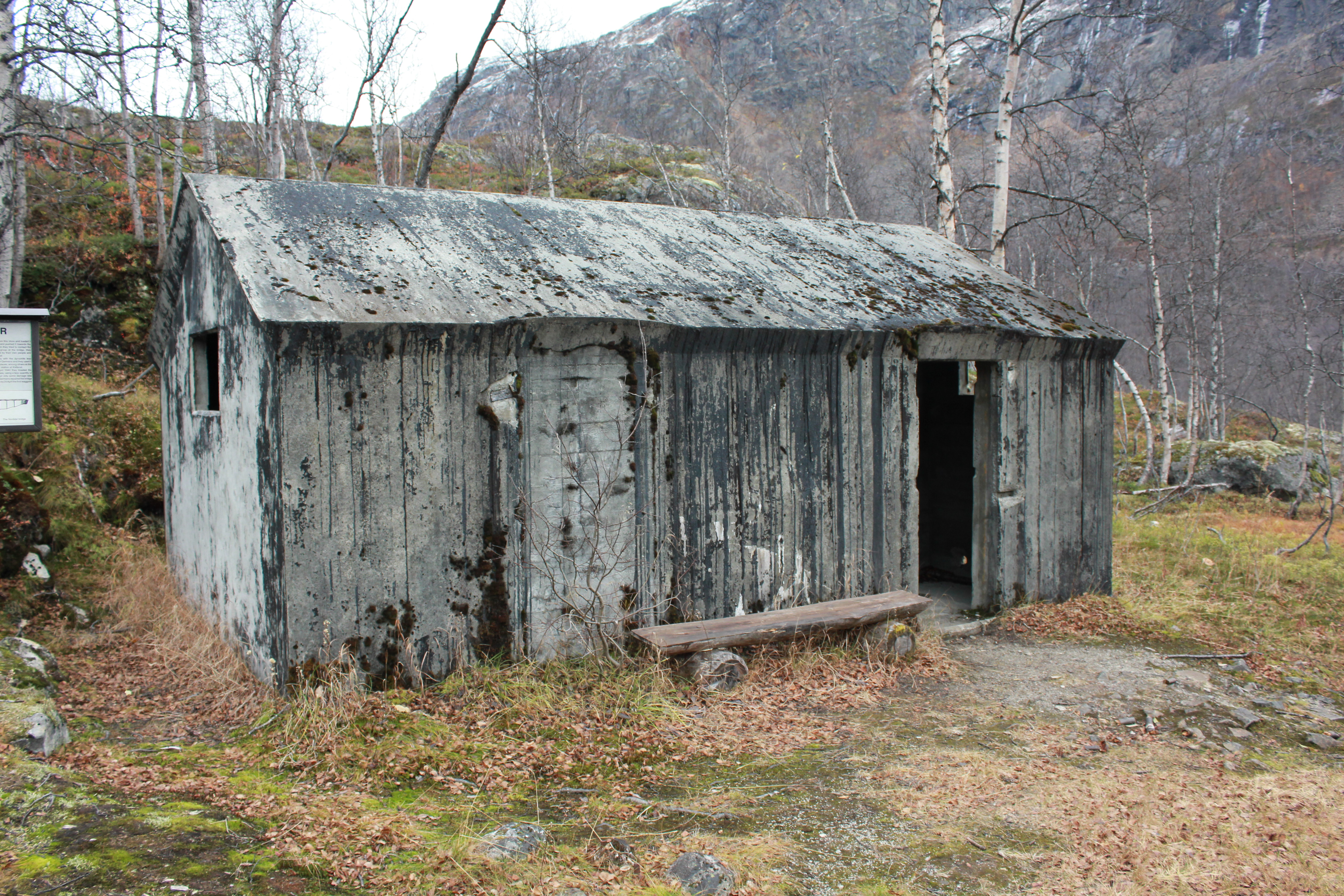 The Norwegian Railway Company's (NSB) dynamite storage bunker near Katterat Station, Ofoten Line, Narvik.